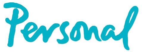 Logo of Personal, the mobile-phone division of Telecom Argentina.